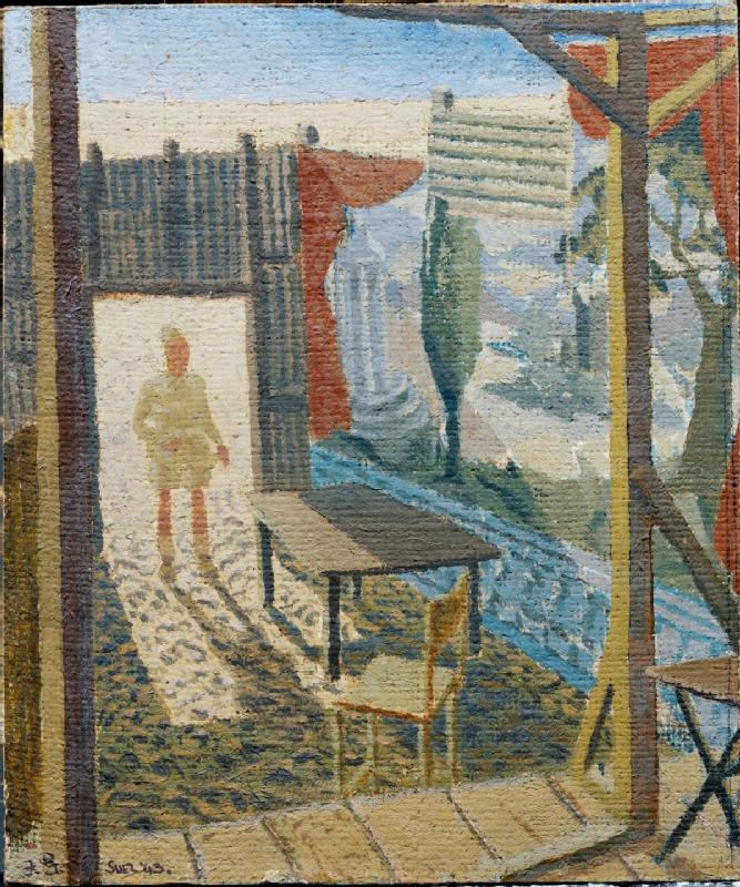 A Cinema in the Desert - Ensa, Suez 1943 image: A British soldier stands in a doorway of a makeshift cinema in the Egyptian desert. Within the open air construction is a table and chair, with a wooden planked floor and wooden frame in the foreground. On the wall on the right hand side is a painted mural.